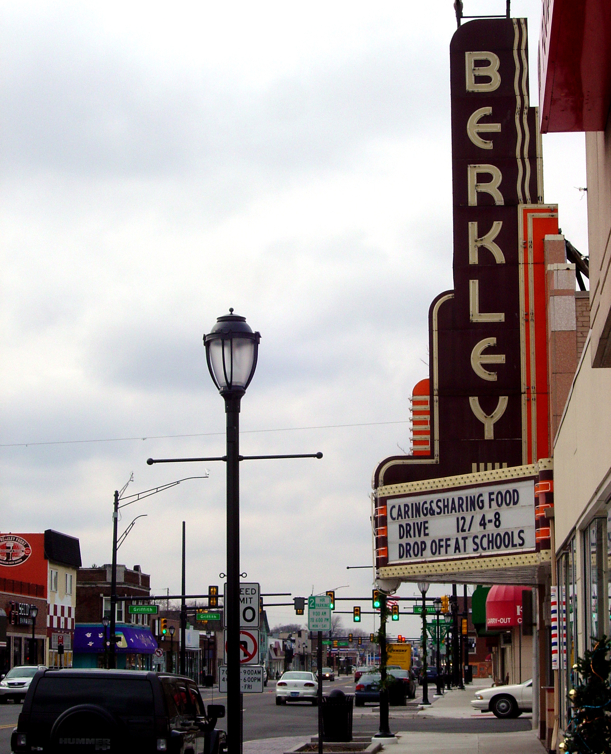 Description: Berkley. MI Source: Photo by stanthejeep Date: December 4,2006 Author: stanthejeep